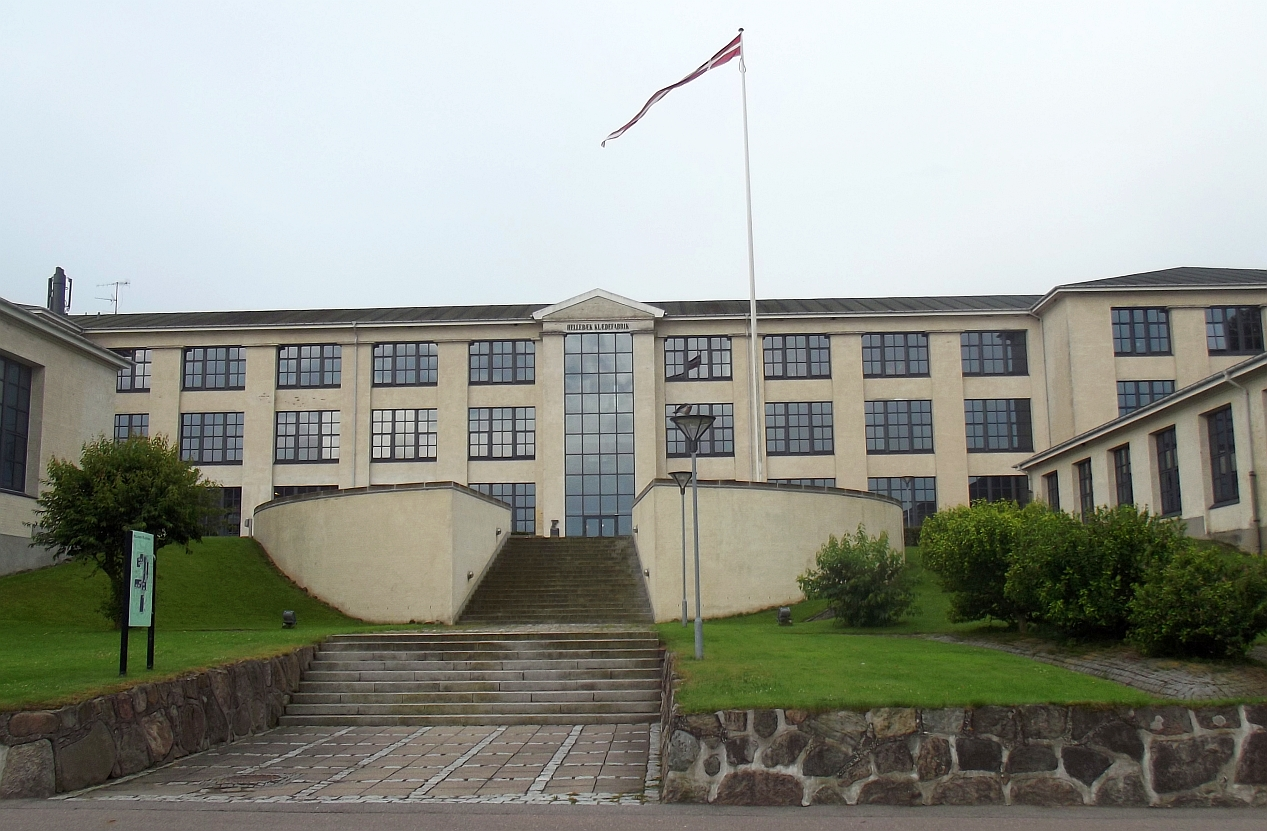 Hellebæk former factory (Denmark)